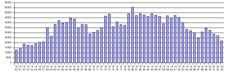 Global catch figures for tusk (Brosme brosme) from 1950 to 2003 based on data from FIGIS - FAO/SIDP Species Identification Sheet: Brosme brosme Created by me using Calc and Draw